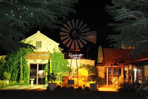 Windmill Centre in Clarens